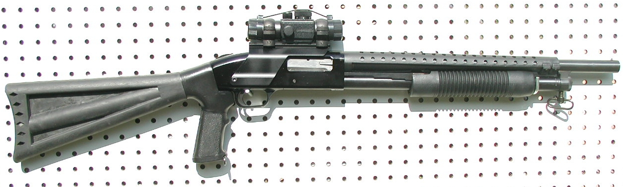 Mossberg 500 Law Enforcement Combo 12 gauge shotgun with Black Warrior pistol grip stock, Aimtech ASM3 see-thru optics mount, and red dot sight.